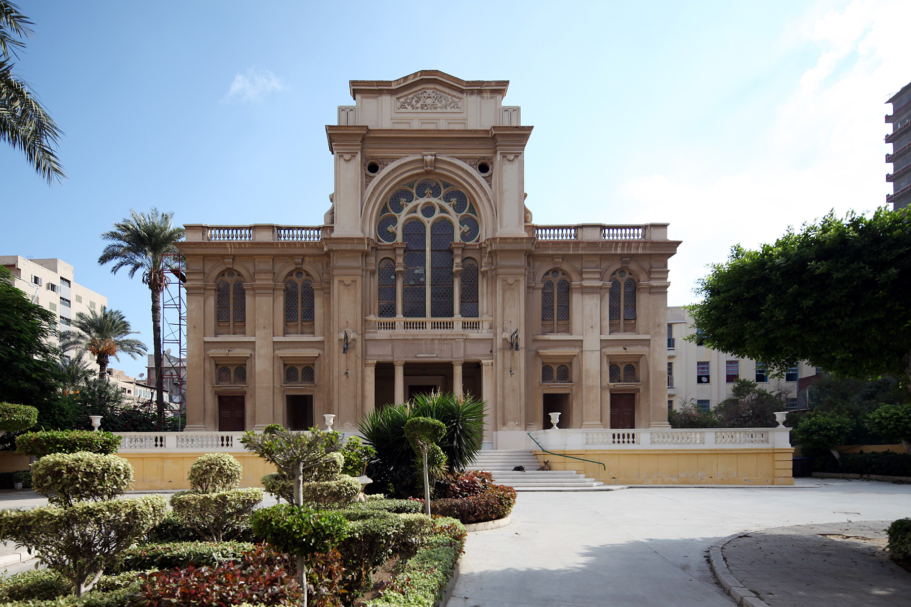 Eliyahu haNavi Synagogue, Nabi Daniel Street, Alexandria, Egypt